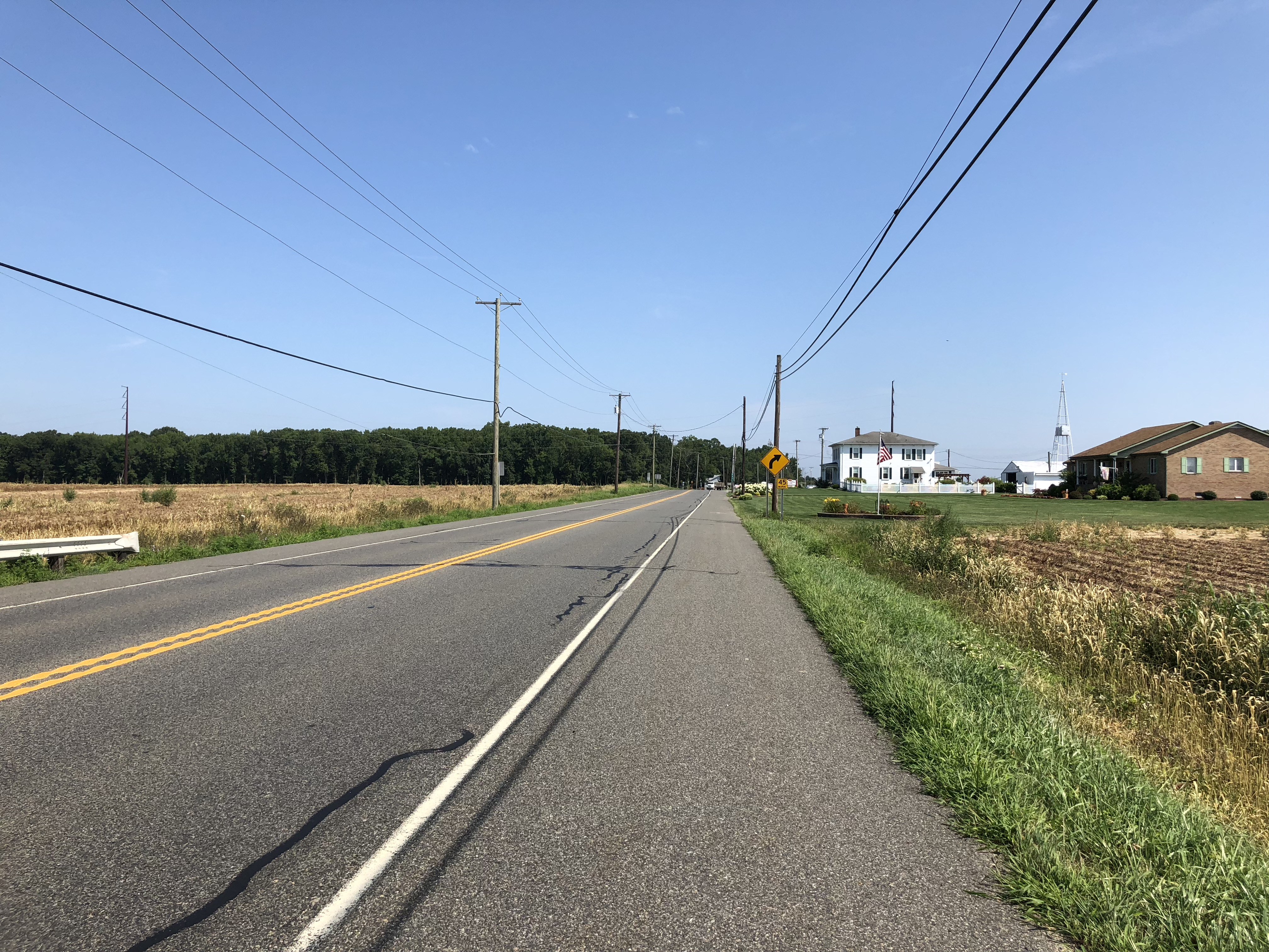 View north along New Jersey State Route 77 (Pole Tavern-Bridgeton Road) just north of Salem County Route 614 (Daretown-Bridgeton Road) in Alloway Township, Salem County, New Jersey